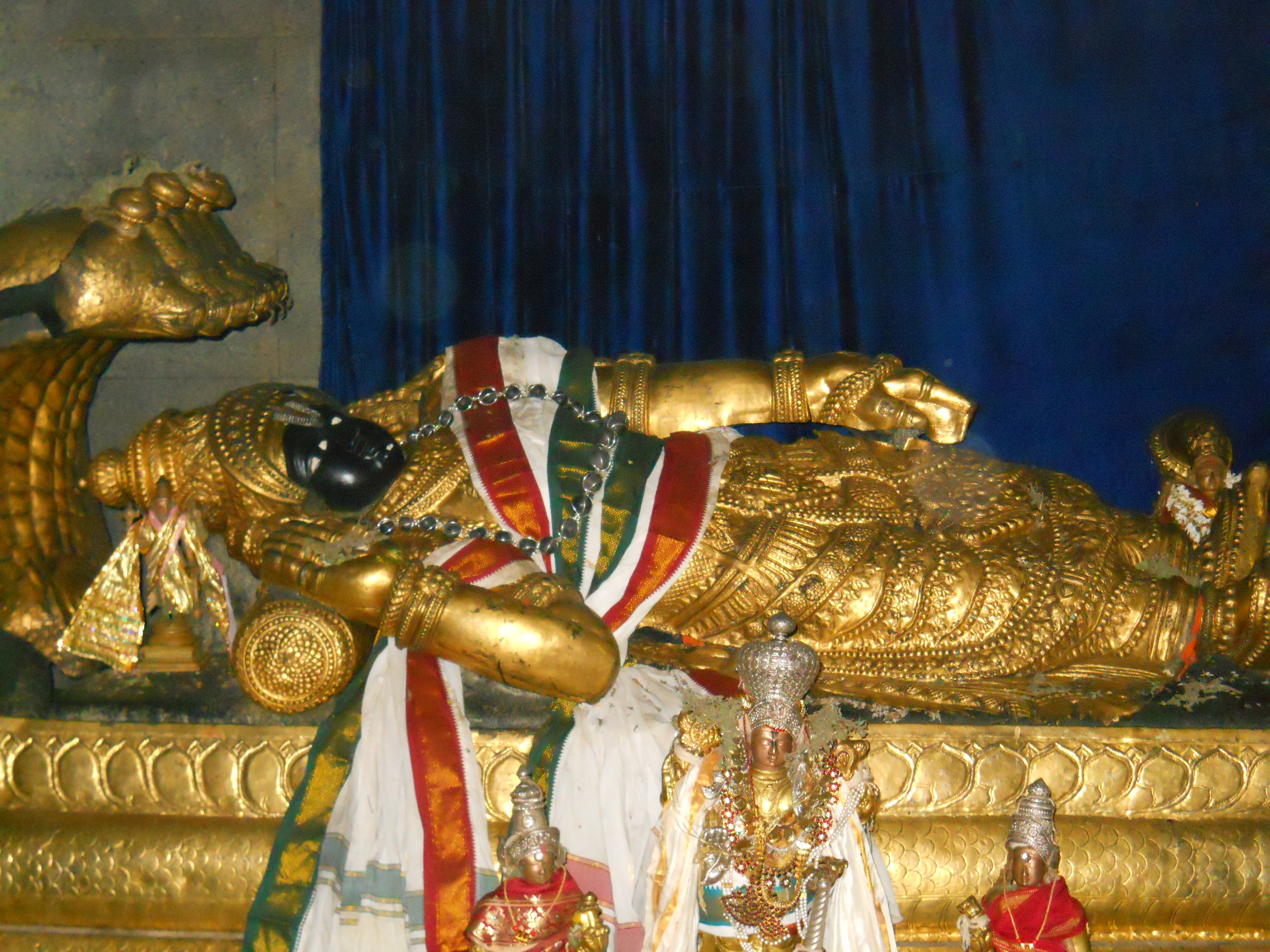 Madyaranga Ranganatha temple: self photographed image